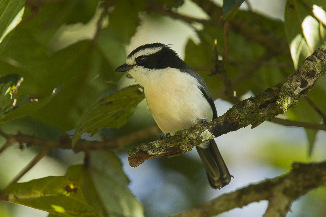 Bocage's Bushshrike (Chlorophoneus bocagei), Uganda